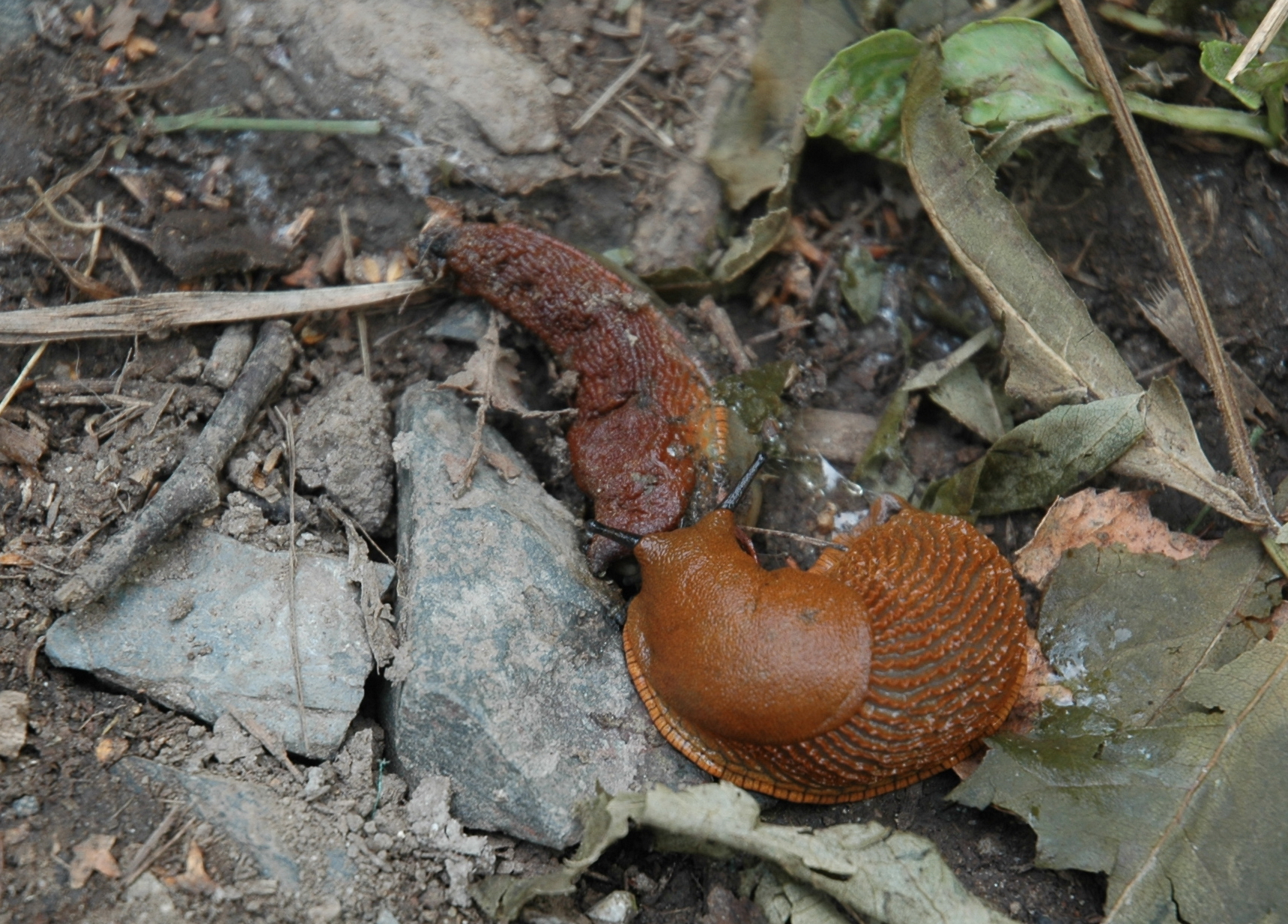 Arion vulgaris (often formerly confused with A. lusitanicus) eating dead member of same species My own photograph, Kjetil Lenes. Norway, summer 2006.